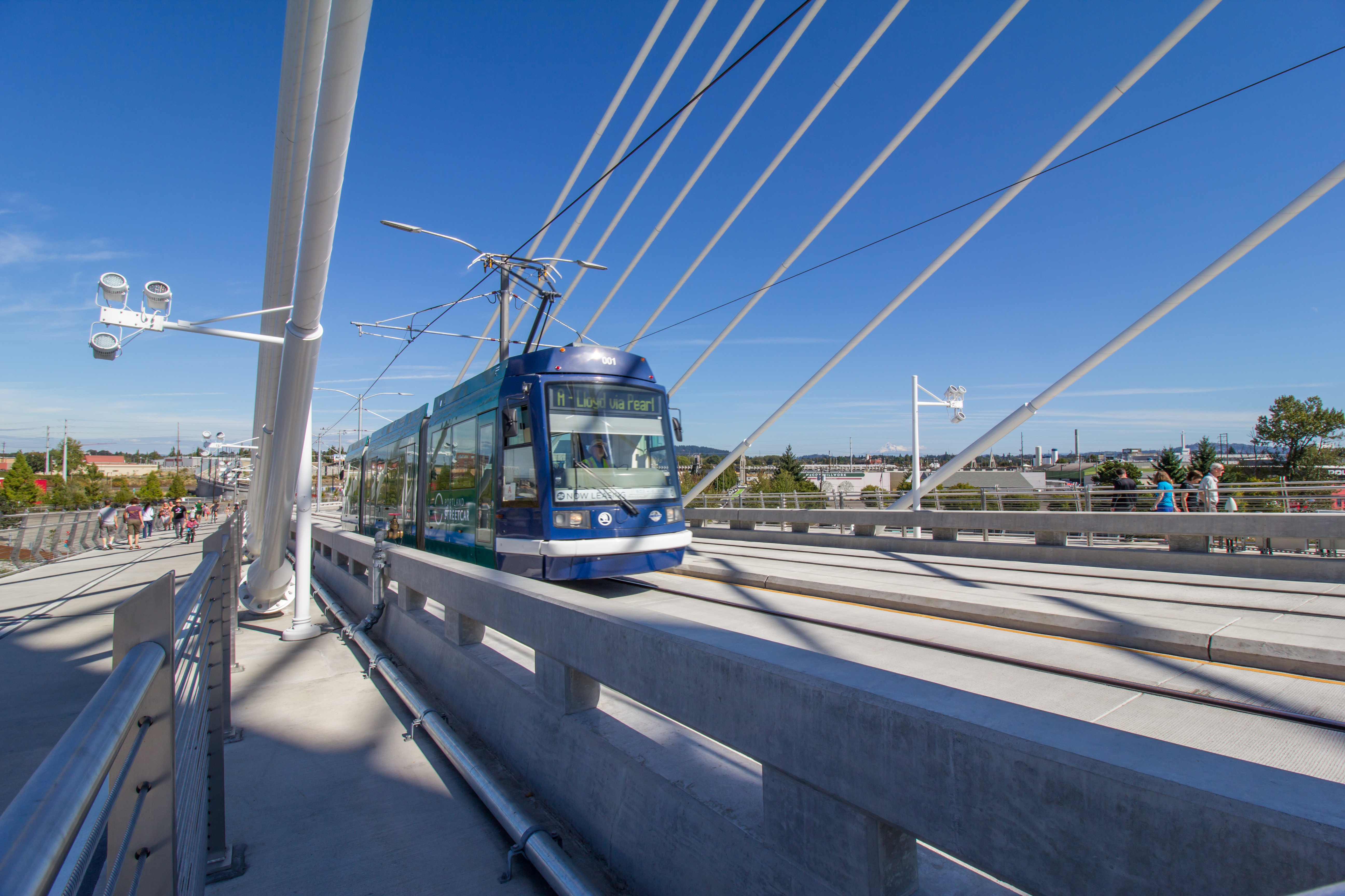 On the Tilikum Crossing